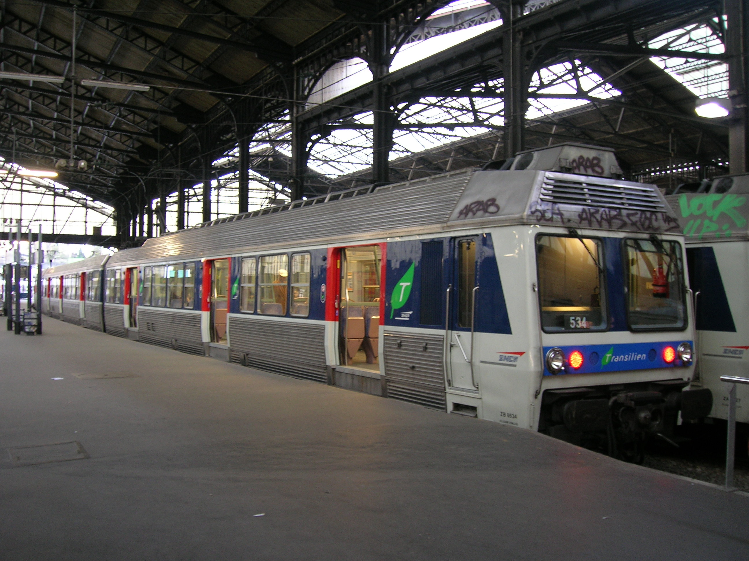 SNCF Z 6534 at St Lazare, Paris